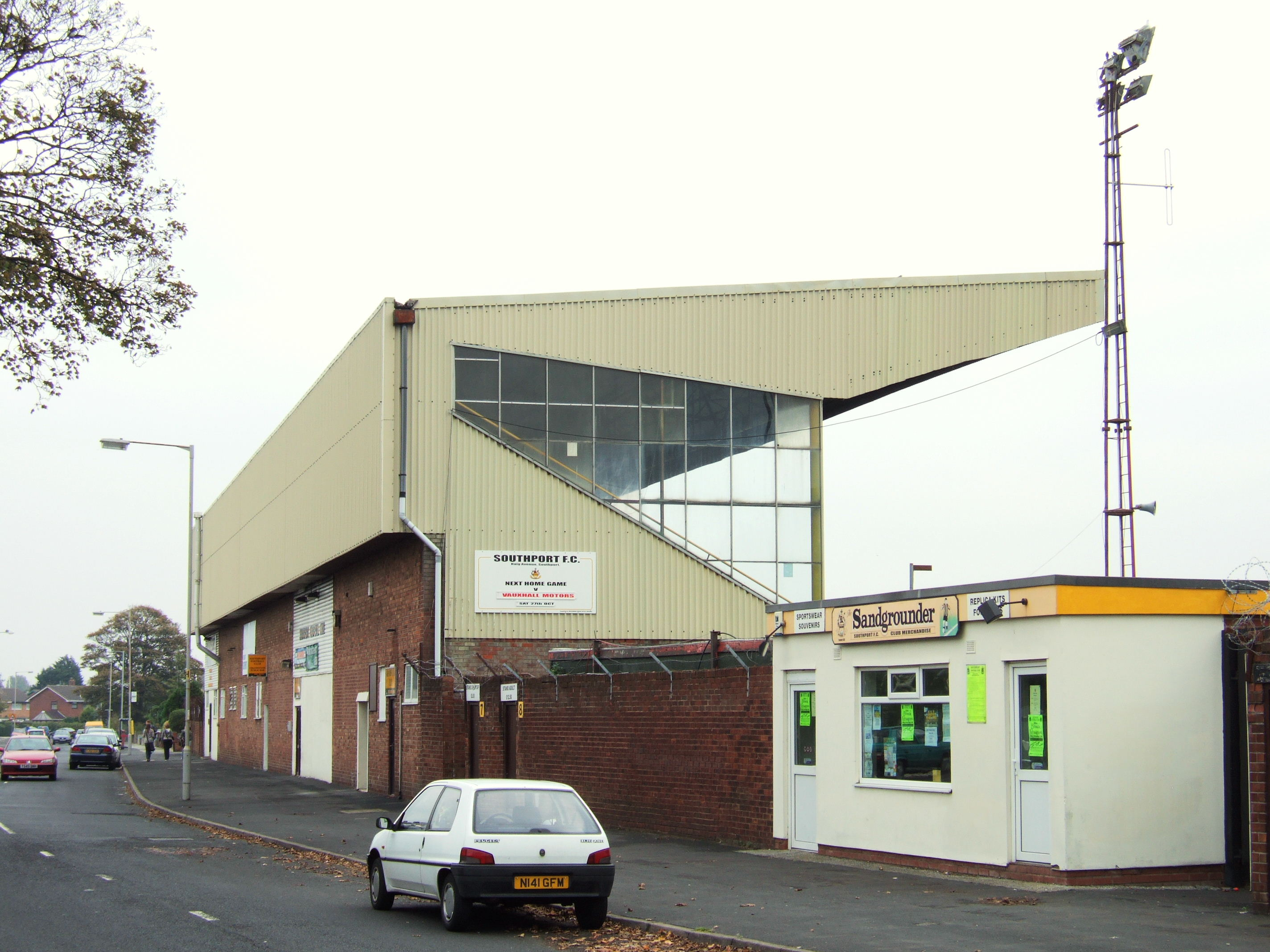 Haig Avenue football stadium, the home of Southport FC, in Southport, Merseyside, England.